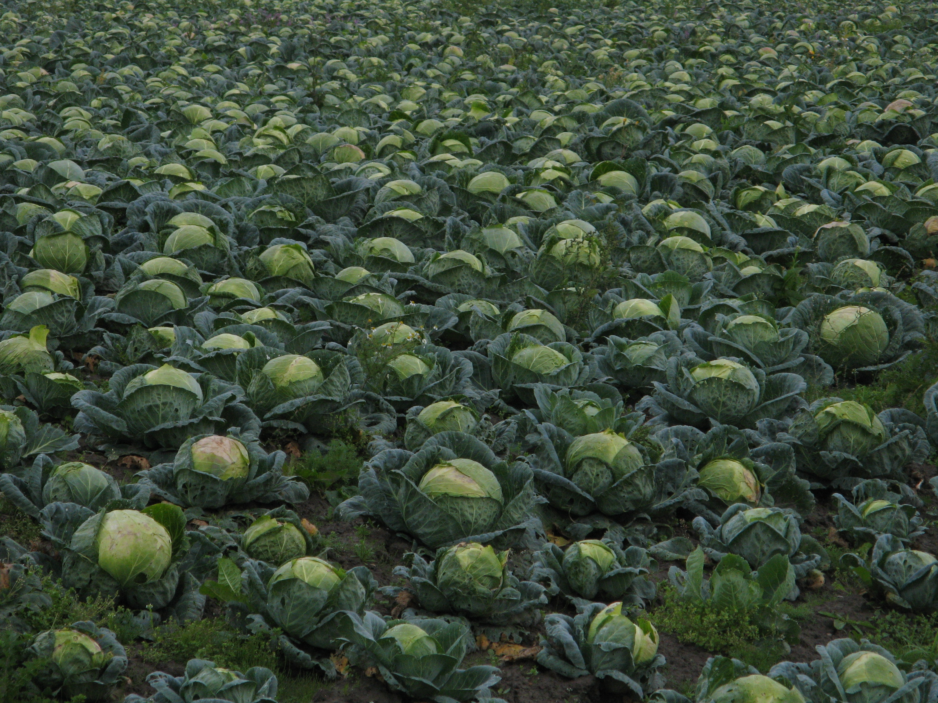 Cabbage field shortly before harvest hellschen-heringsand-unterschar in dithmarschen, europes largest cabbage-producing region.